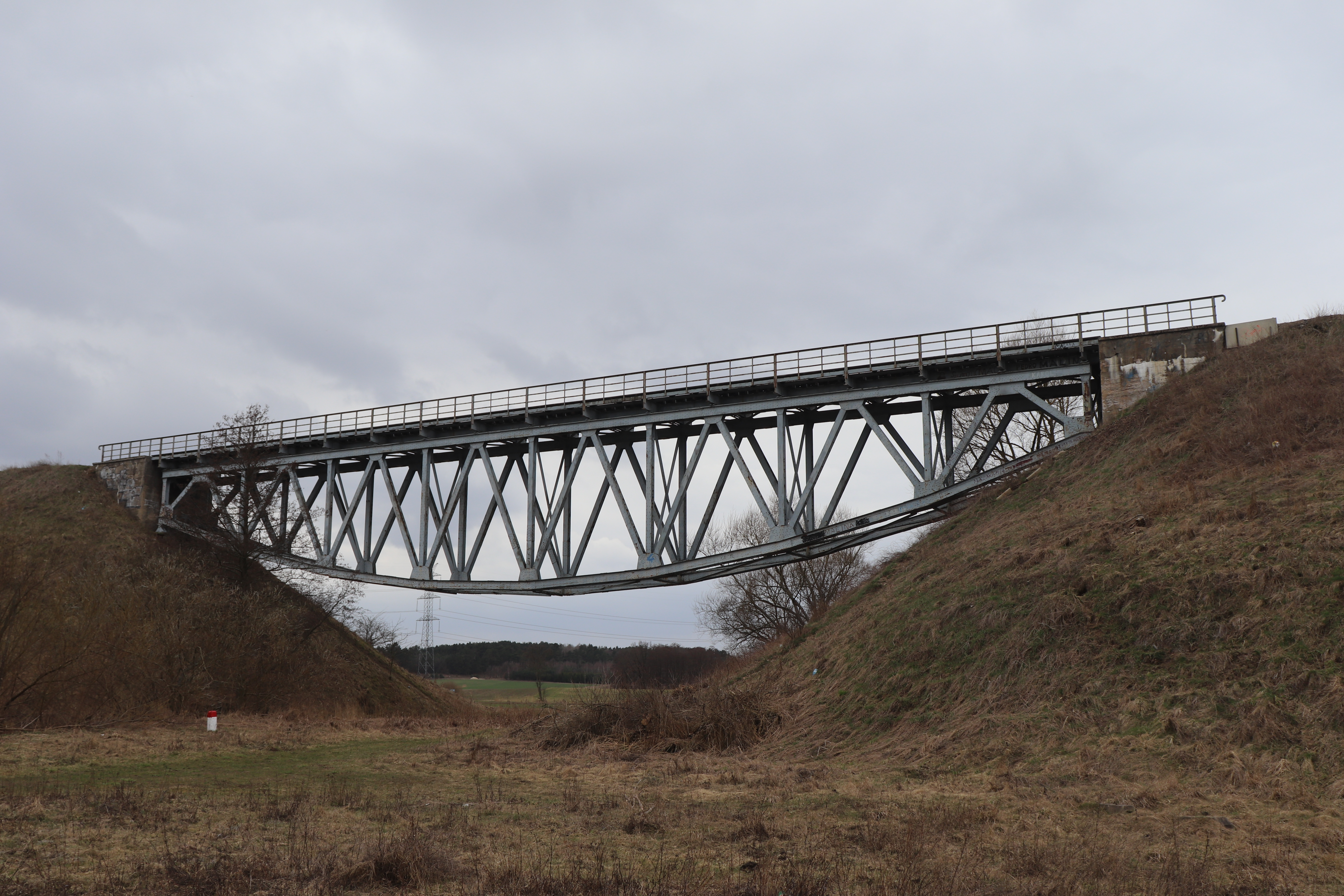 Leźno - "black bridge" over the Radunia on the closed Gdańsk Wrzeszcz - Stara Piła railway line